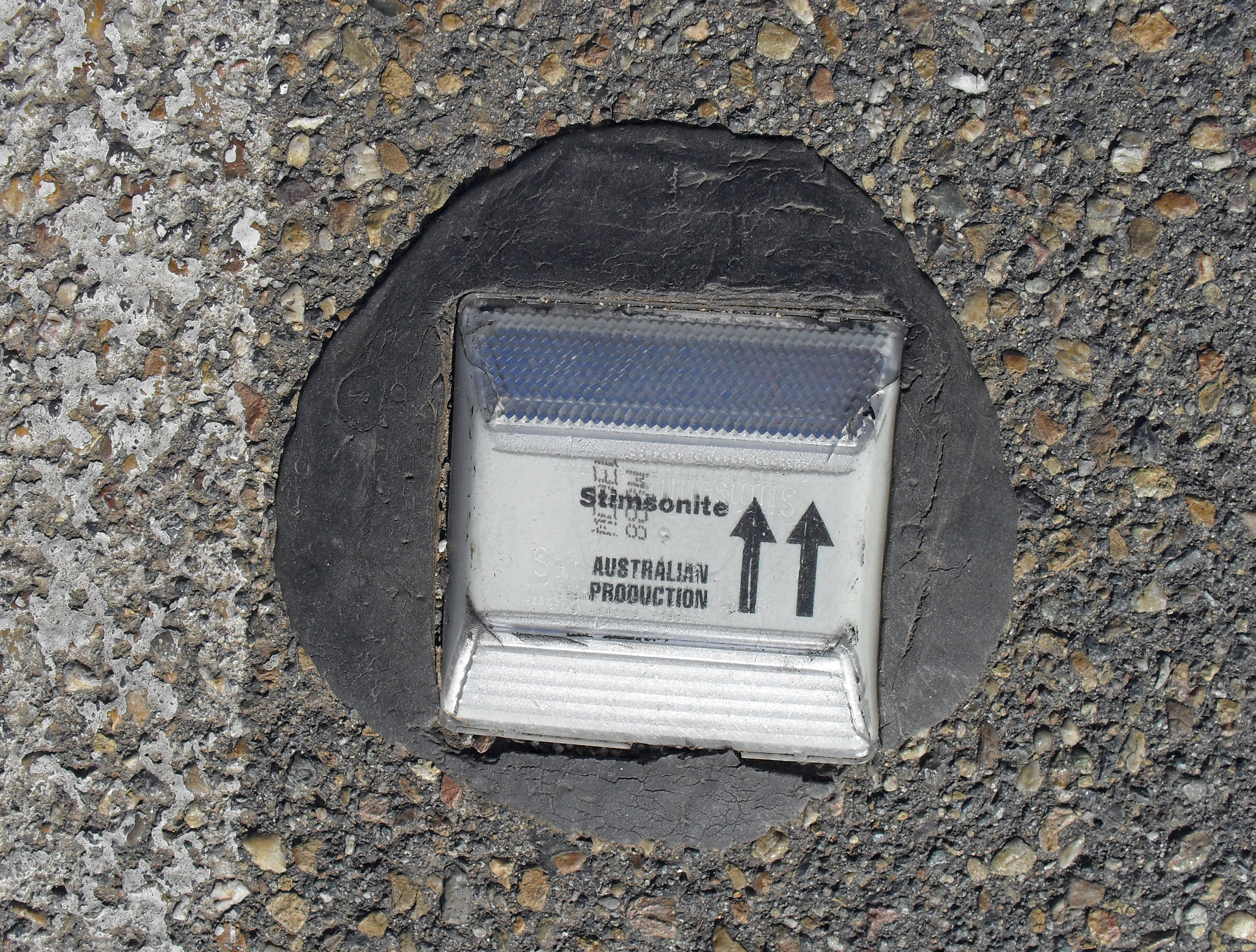 White raised pavement marker photographed in Australia.